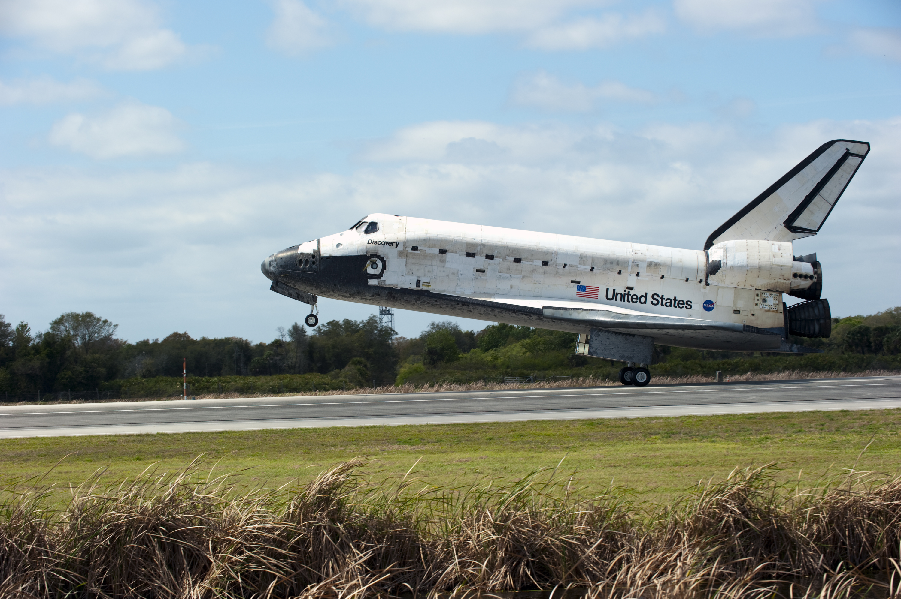 CAPE CANAVERAL, Fla. - Space shuttle Discovery touches down on Runway 15 at the Shuttle Landing Facility at NASA's Kennedy Space Center in Florida. Landing was at 11:57 a.m. EST, completing the 13-day STS-133 mission to the International Space Station. Main gear touchdown was at 11:57:17 a.m., followed by nose gear touchdown at 11:57:28, and wheelstop at 11:58:14 a.m. On board are Commander Steve Lindsey, Pilot Eric Boe, and Mission Specialists Nicole Stott, Michael Barratt, Alvin Drew and Steve Bowen. Discovery and its six-member crew delivered the Permanent Multipurpose Module, packed with supplies and critical spare parts, as well as Robonaut 2, the dexterous humanoid astronaut helper, to the orbiting outpost. STS-133 was Discovery's 39th and final mission. This was the 133rd Space Shuttle Program mission and the 35th shuttle voyage to the space station.